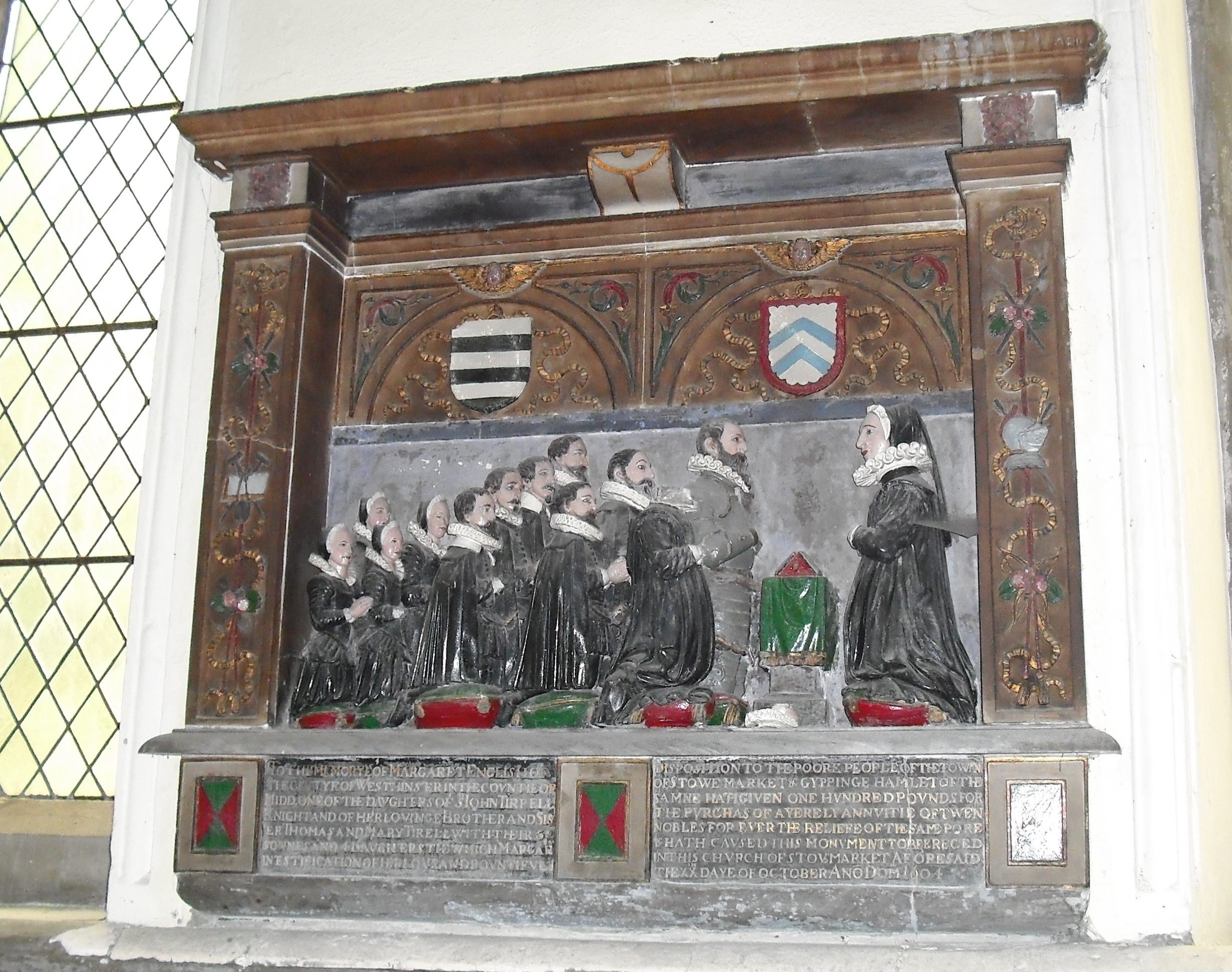 File:St Peter and St Mary's church, Stowmarket, Suffolk - Margaret English monument